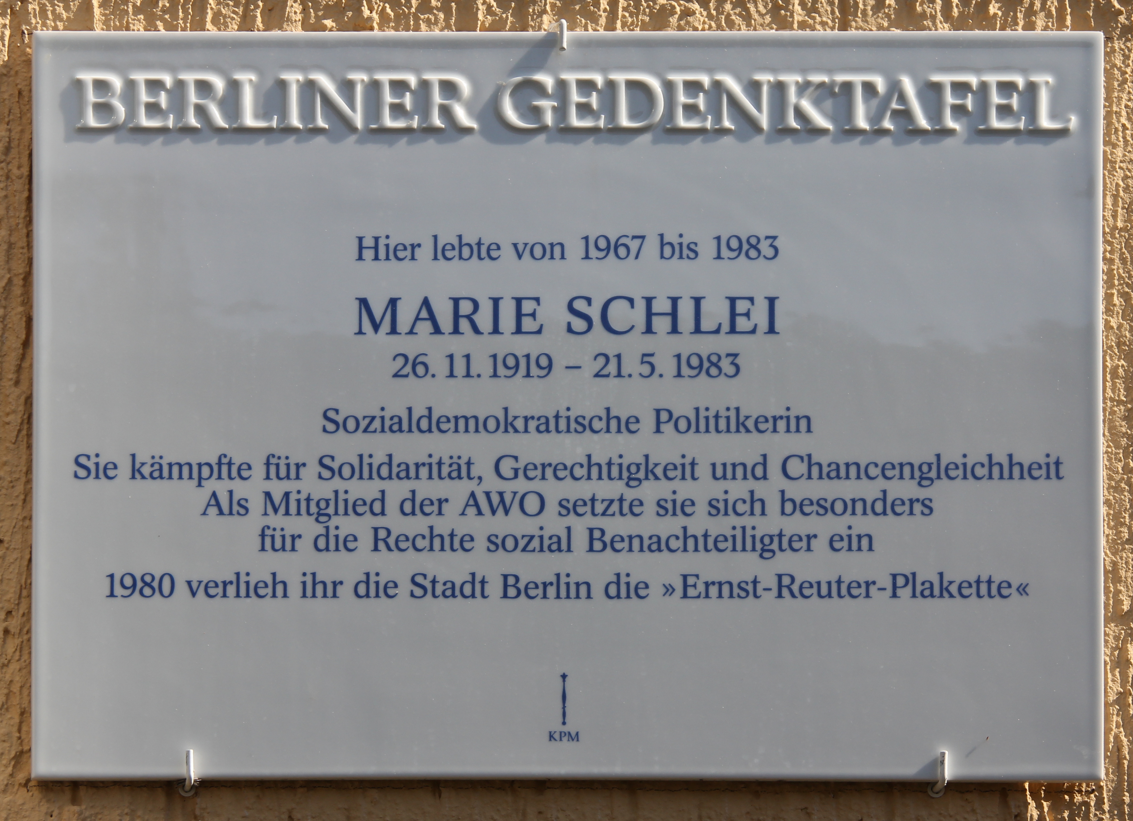 Berlin memorial plaque, Marie Schlei, Allmendeweg 112, Berlin-Tegel, Germany